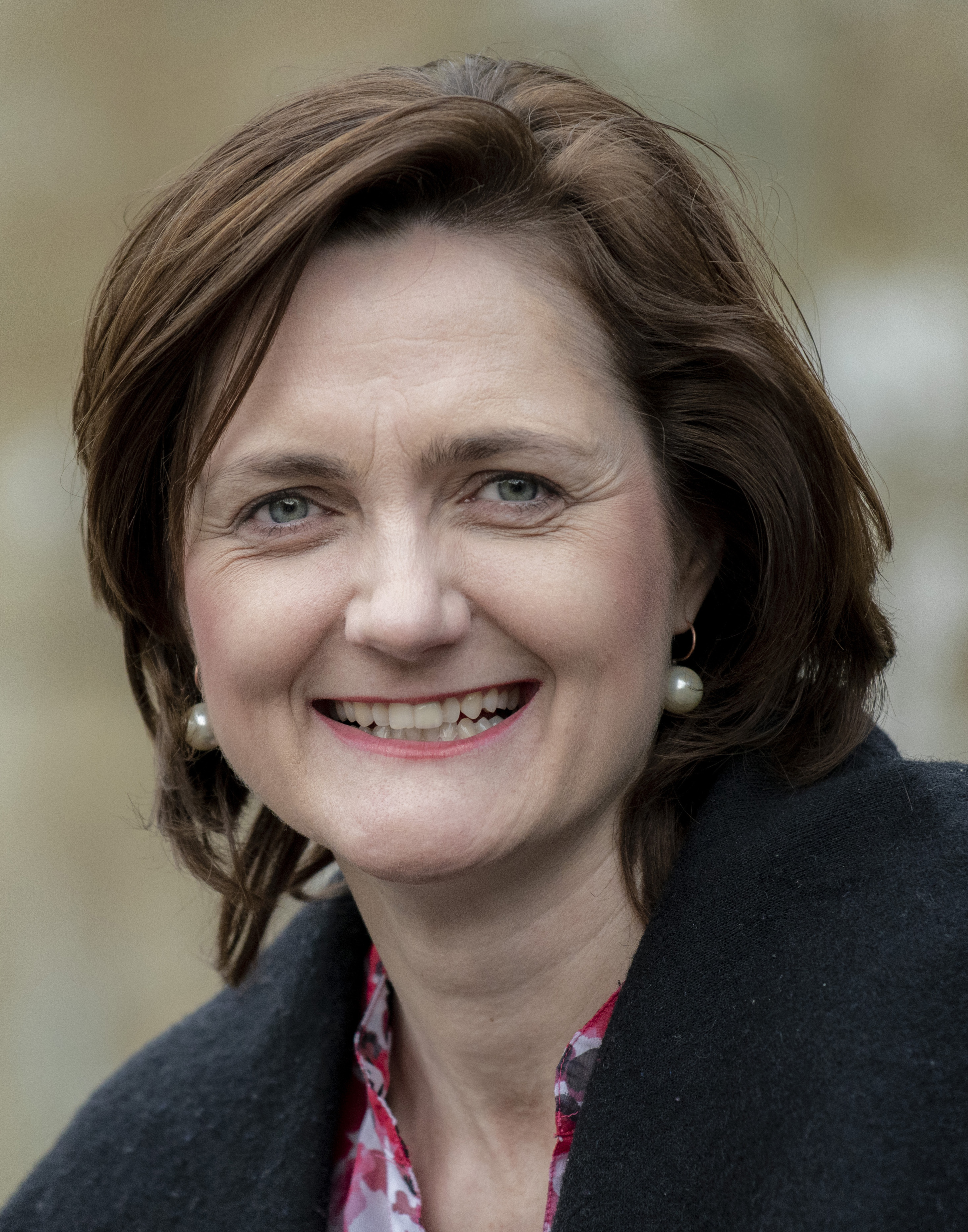 Simone Lange, Mayor of Flensburg, candidate for SPD leadership at SPD conference in Wiesbaden on 22 April 2018